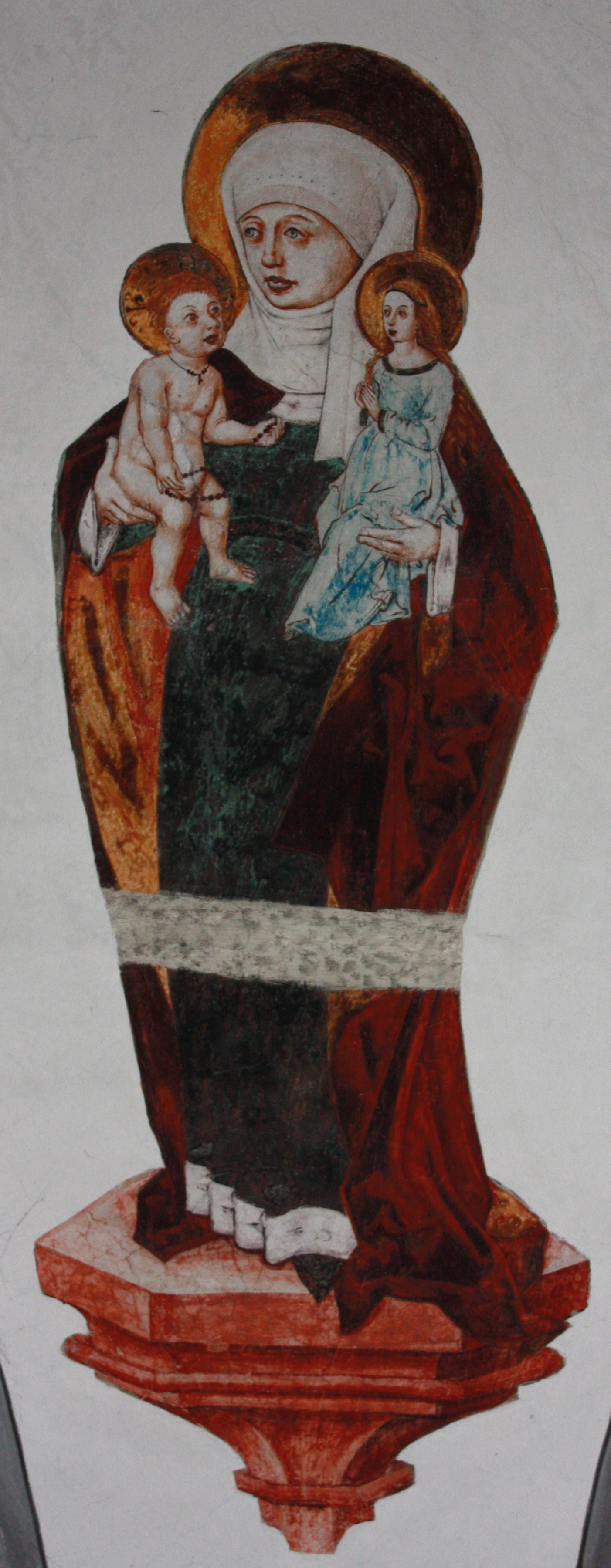 Michael-chapell - ceiling-painting - Anna selbdritt Locality: Kirchensteig Community:Villach